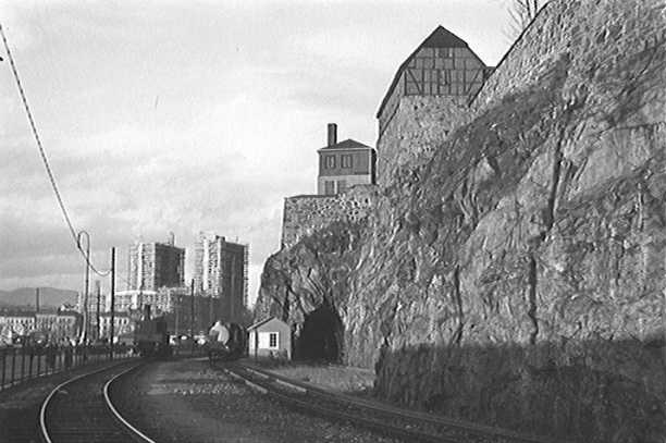 Havnebanen past Akershus Fortress, Oslo, Norway.